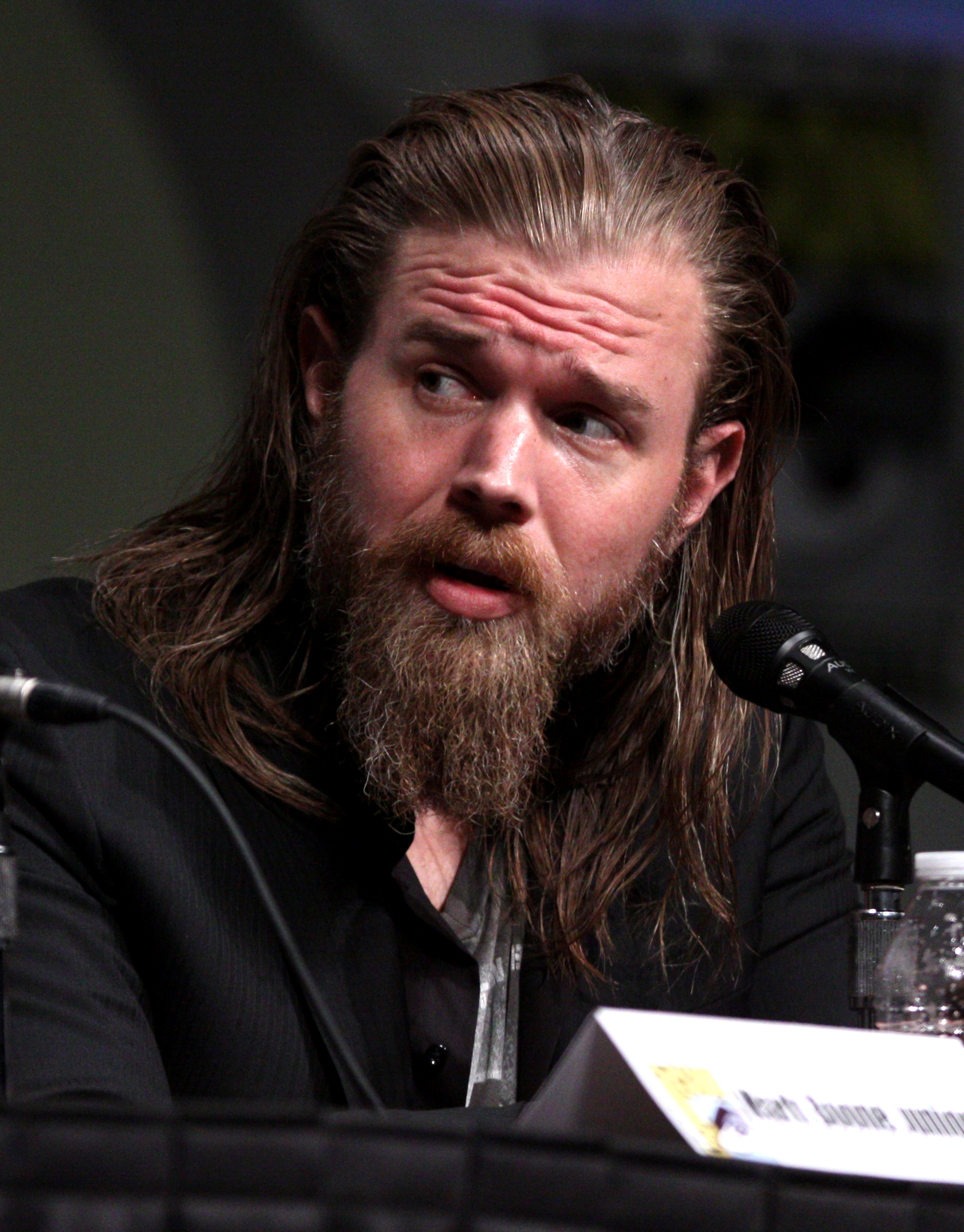 Ryan Hurst at the 2012 Comic-Con in San Diego.